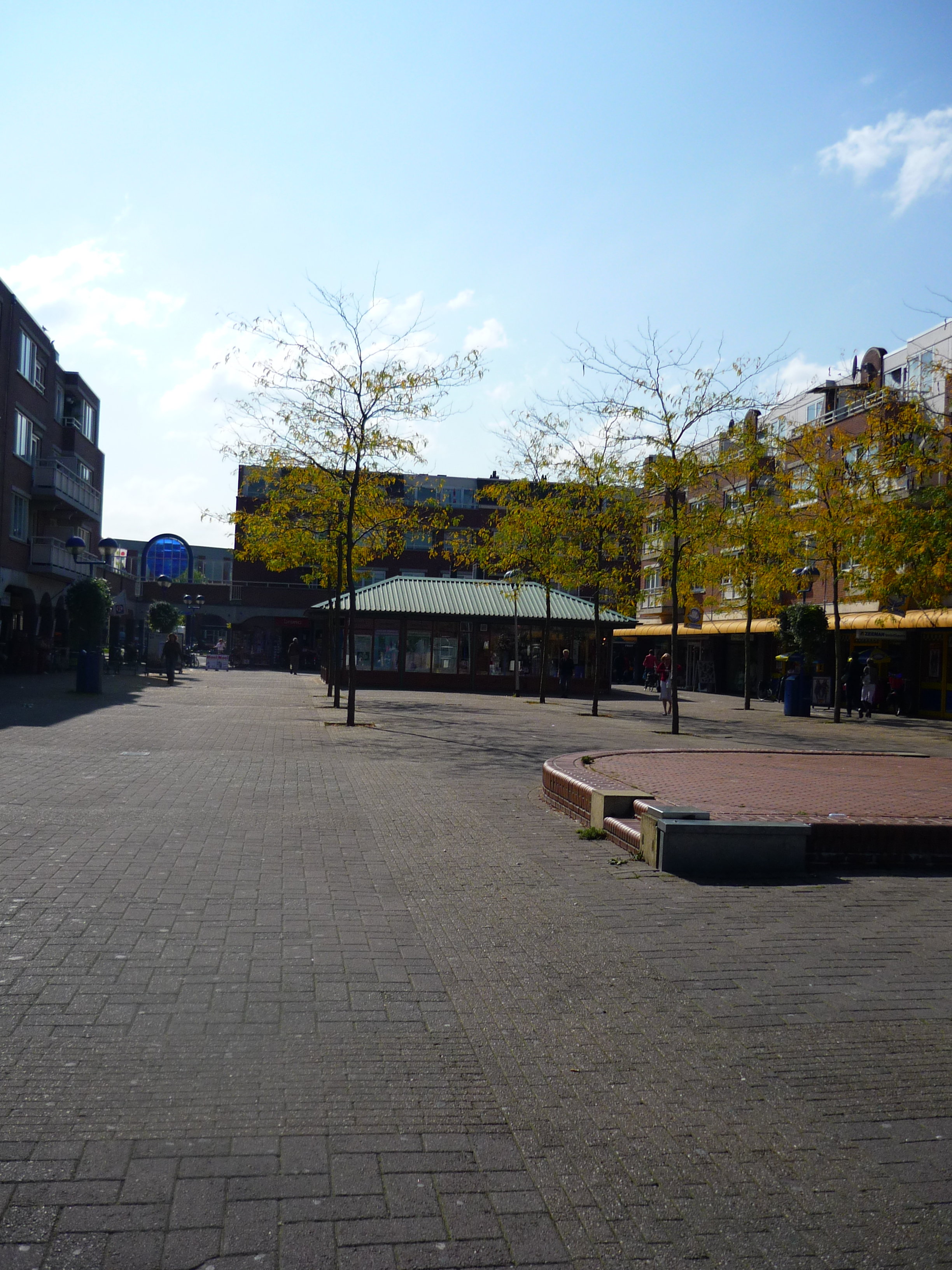 Plein Oostermeent Huizen